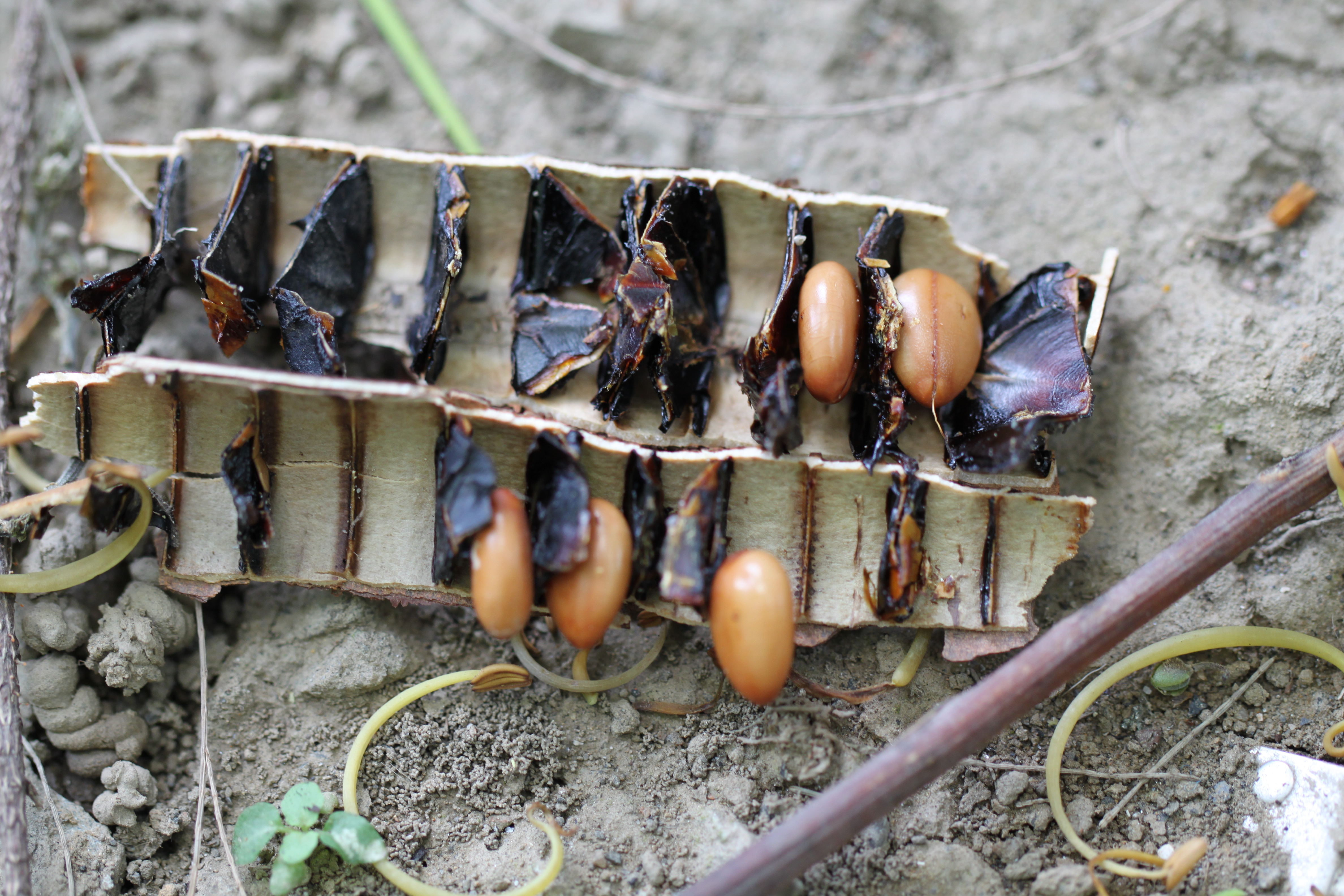 Seeds & pod of Cassia fistula.Taipei, Taiwan.